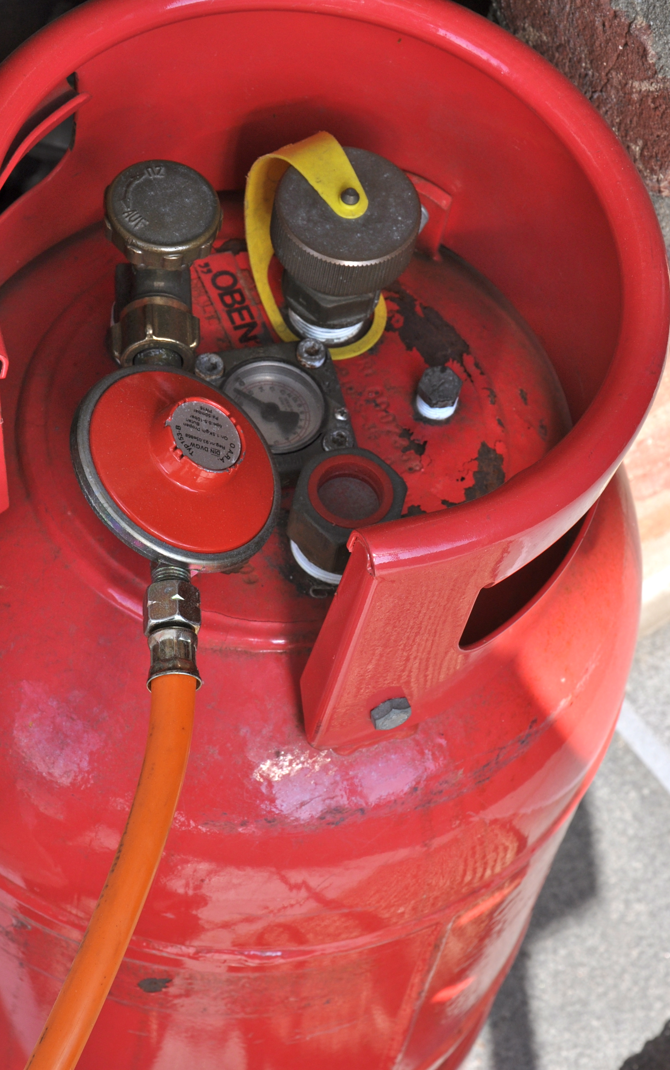 Red transportable LPG bottle